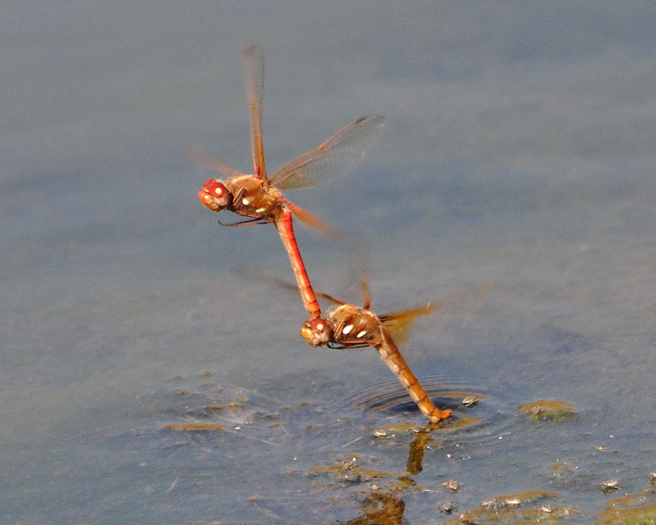 Scene from Calero County Park